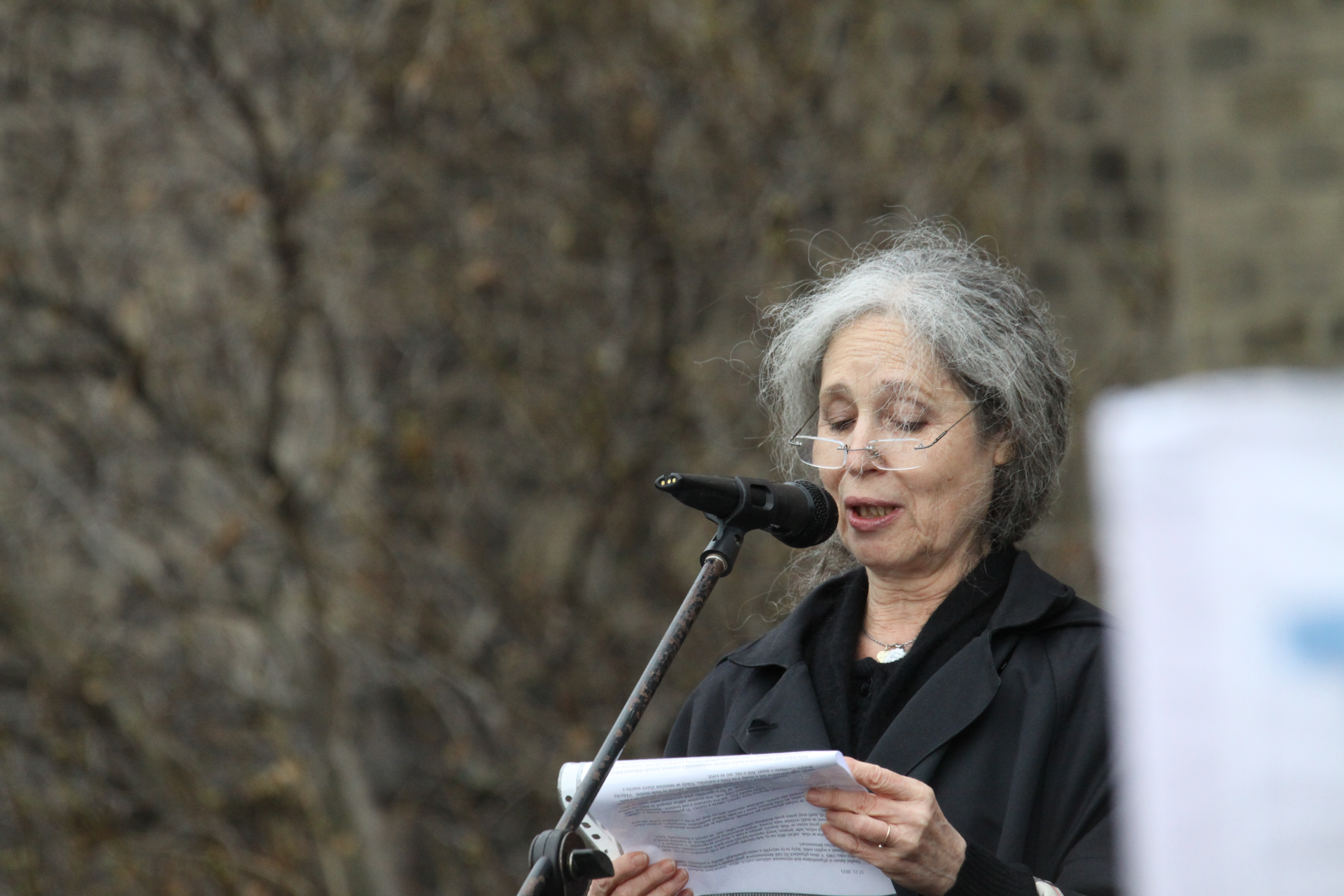 Táňa Fischerová during demonstration called "Tahle Země patří všem "REFUGEES WELCOME"" on the occasion of the state holiday of 17th of Ocotber, Prague, Czech Republic.